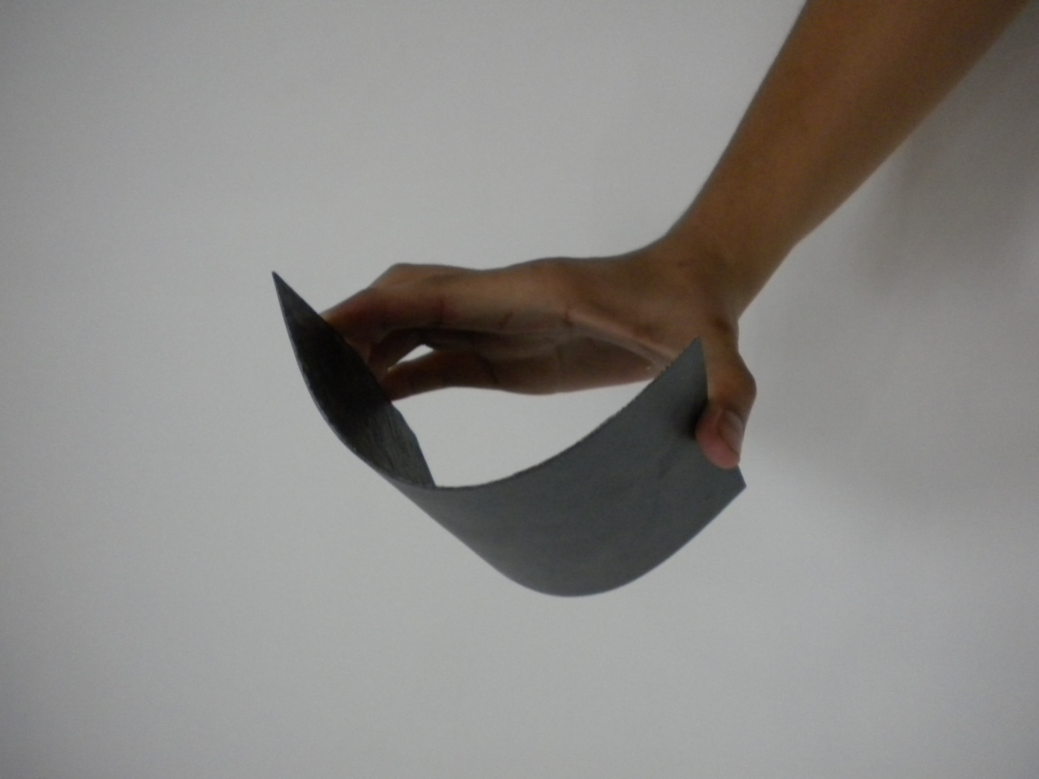 Stone Veneer proven to show that it's easily bended by hand